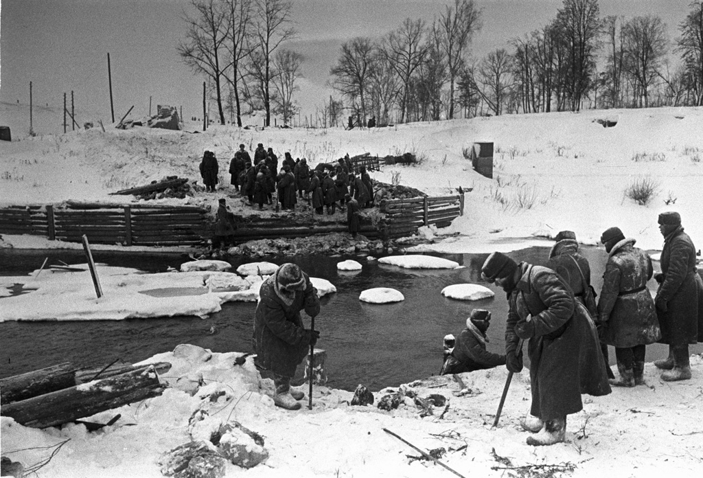 “Soviet soldiers looking for mines after the liberation of Naro-Fominsk”. Soviet soldiers looking for mines after the liberation of Naro-Fominsk.